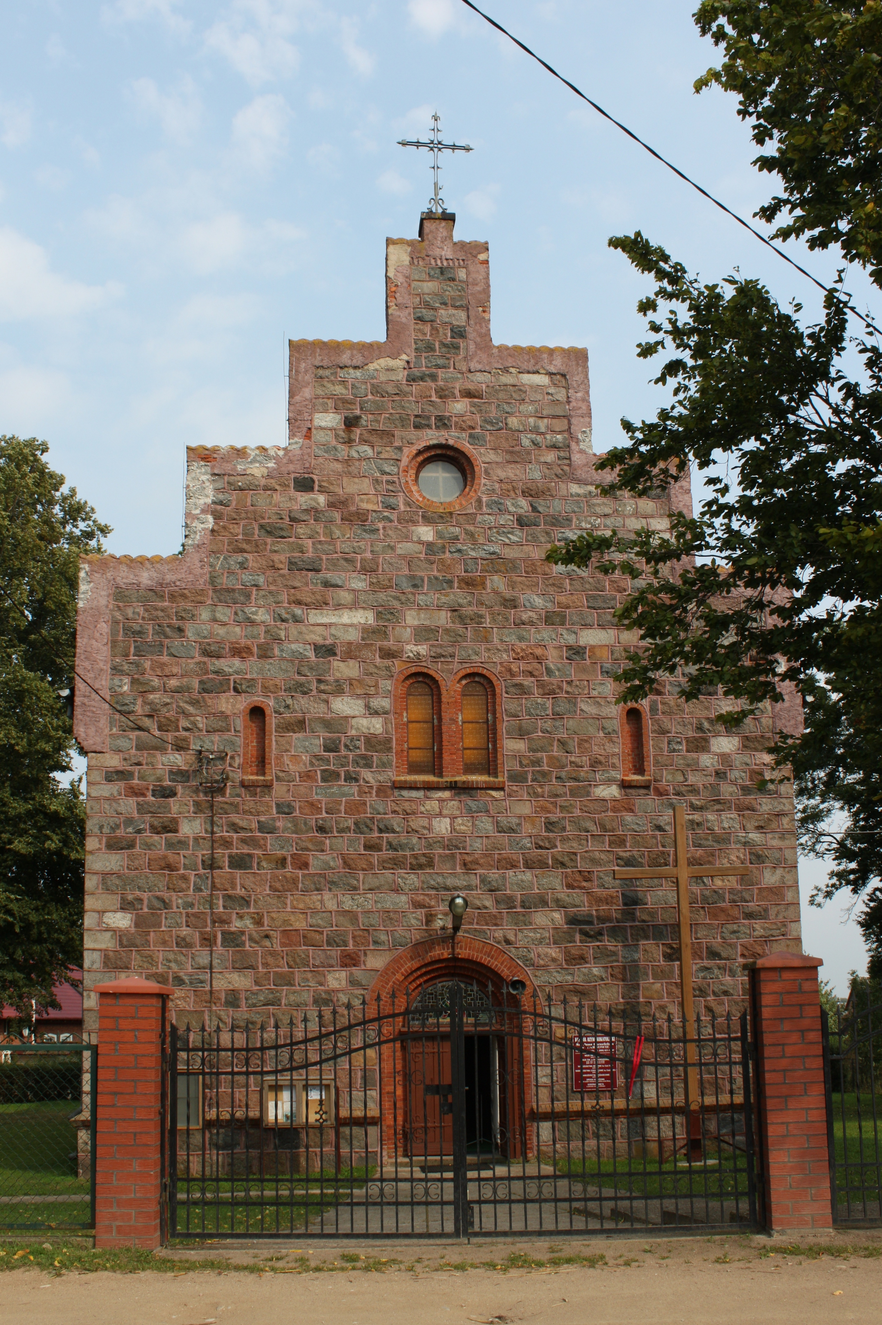 Saint John the Baptist church in Targowo.